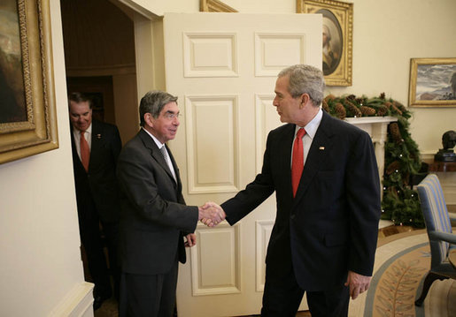 President Oscar Arias of Costa Rica shakes hands with President George W. Bush of the U.S.A. at the White House